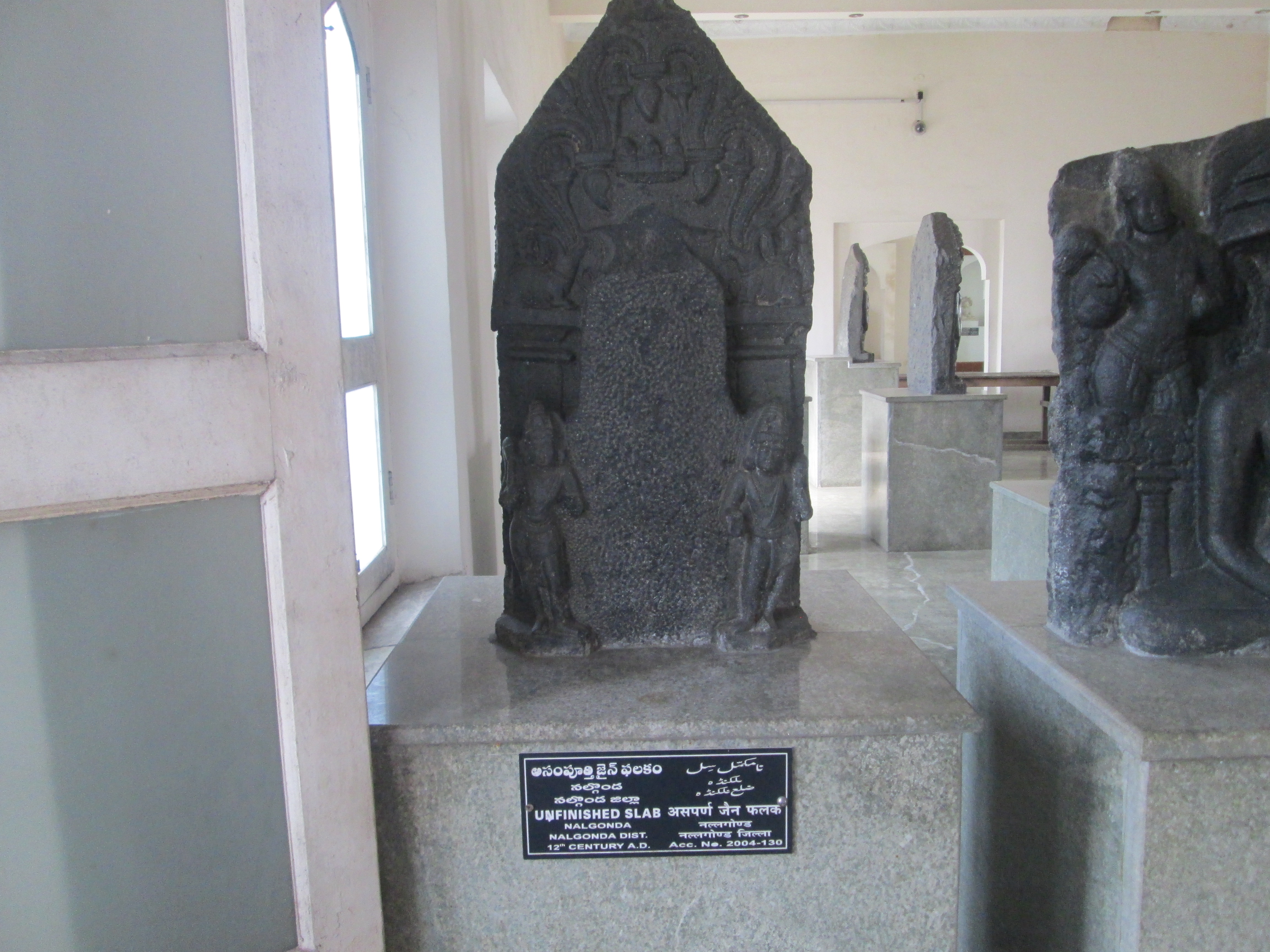 unfinished jain stupa of nalgonda